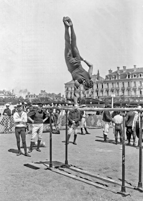 Pierre Payssé on parallel bar at the Festival of the Union of Gymnastic Societies of France, Angers, May 1909